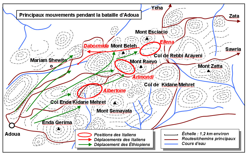 Main movements during the battle of Adwa